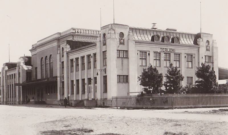 Terijoki railway station in Terijoki, Finland, 1937.